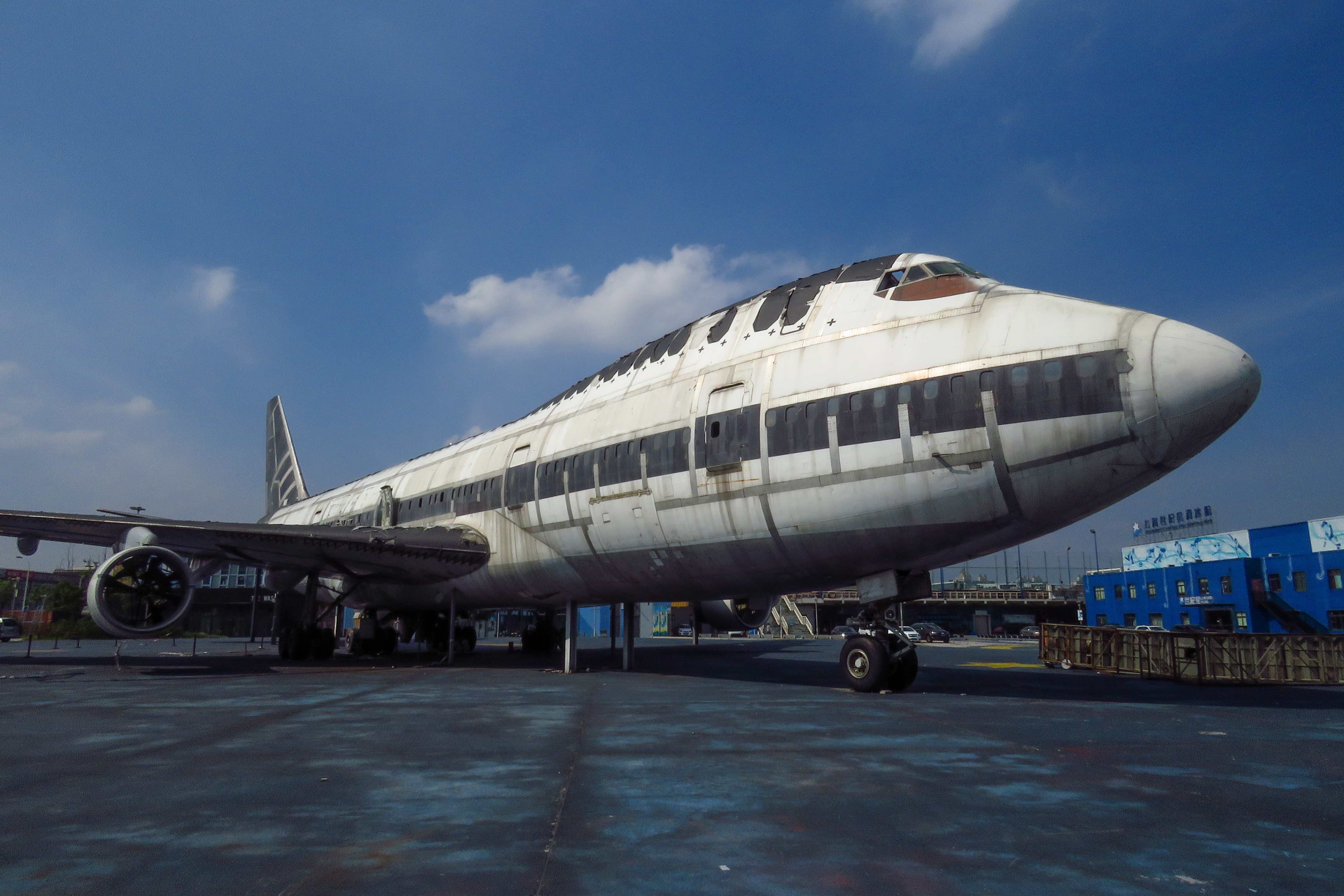 Ex N771PA (Clipper Donald McKay), converted to freighter in 1975. It would be better to see it in Pan Am livery.